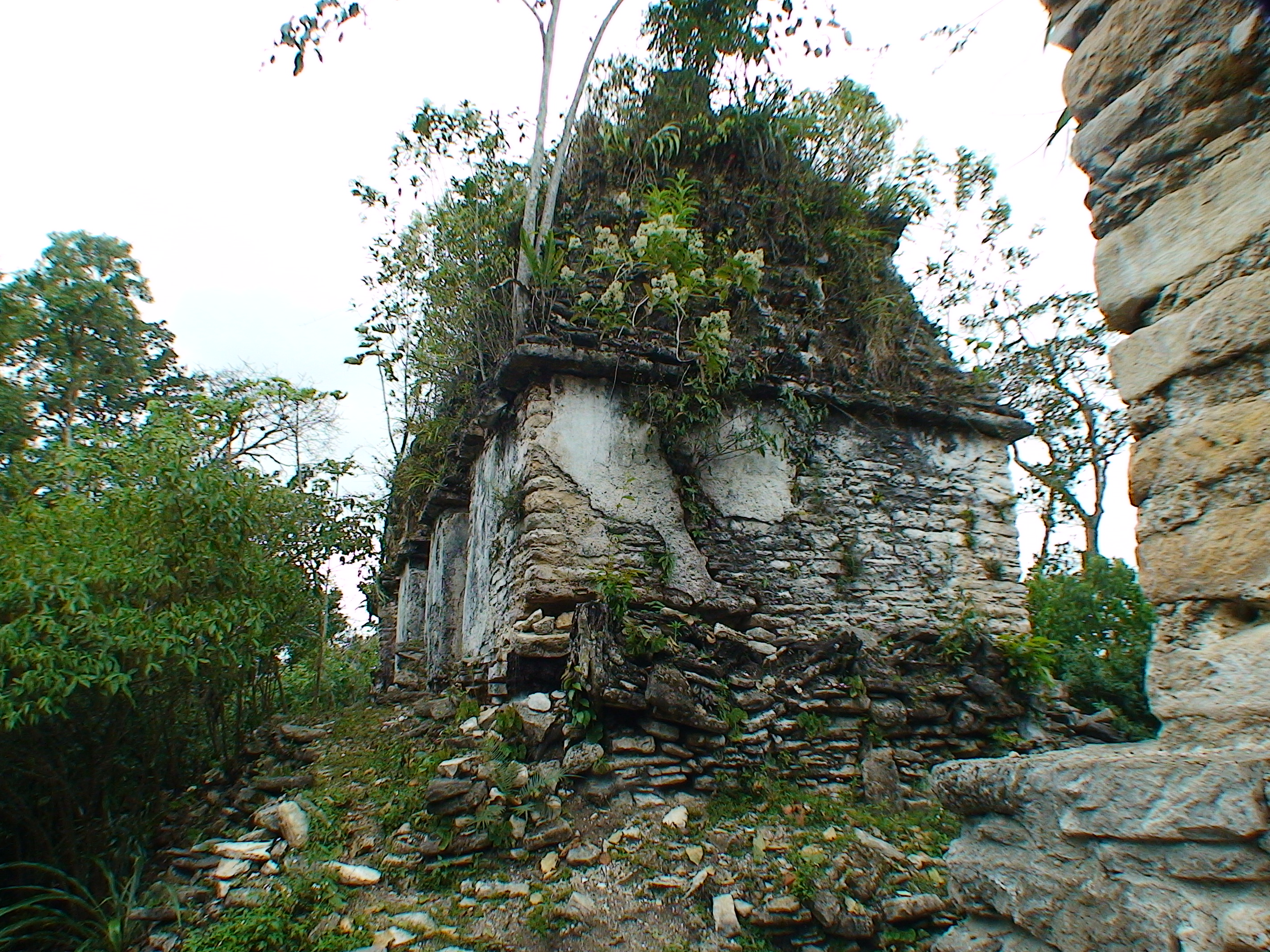 Row of temples at Plan de Ayutla, Chiapas, Mexico